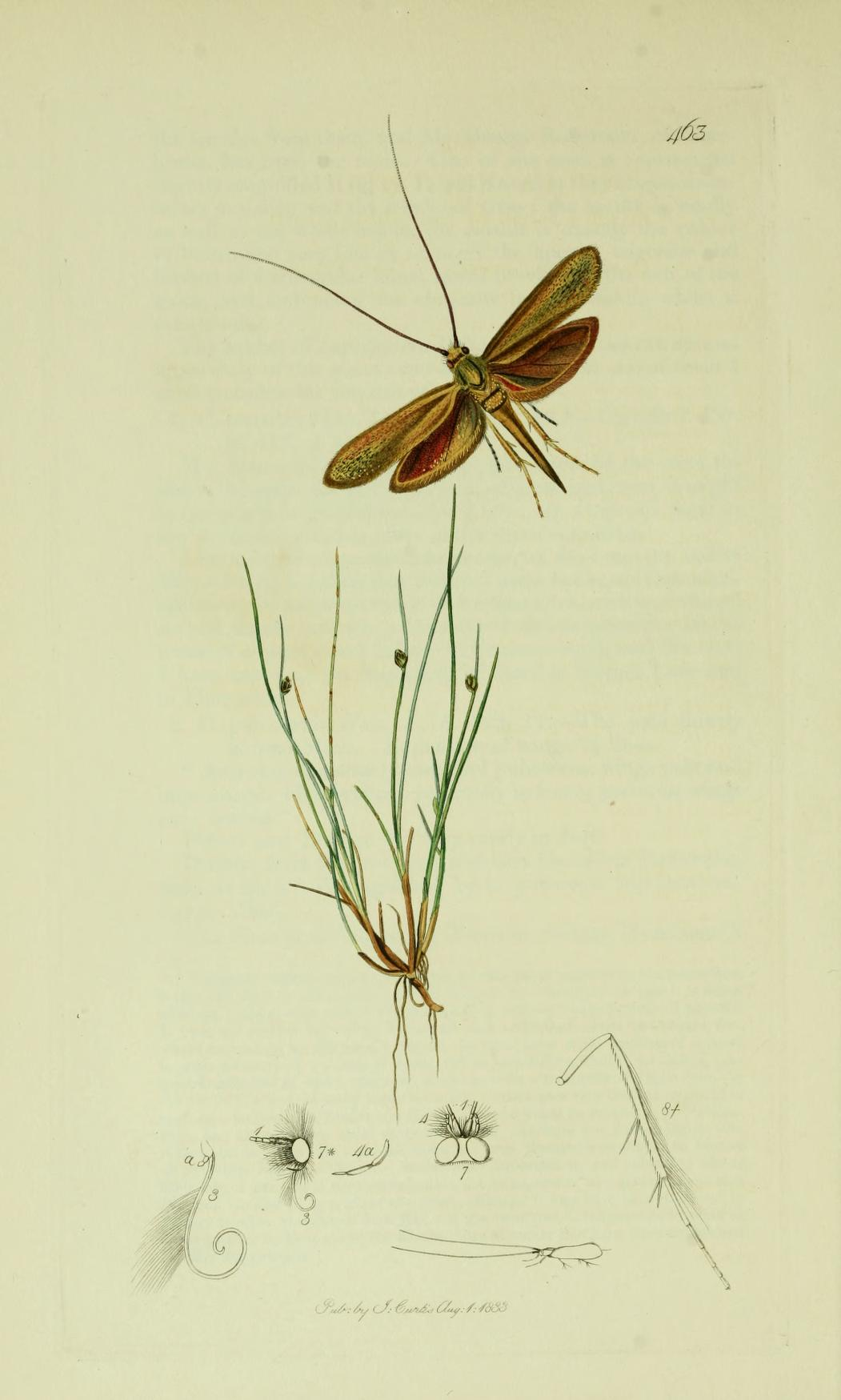 An illustration from British Entomology by John Curtis. Lepidoptera: Adela frischella or Coleophora frischella (Frisch’s Case-moth).